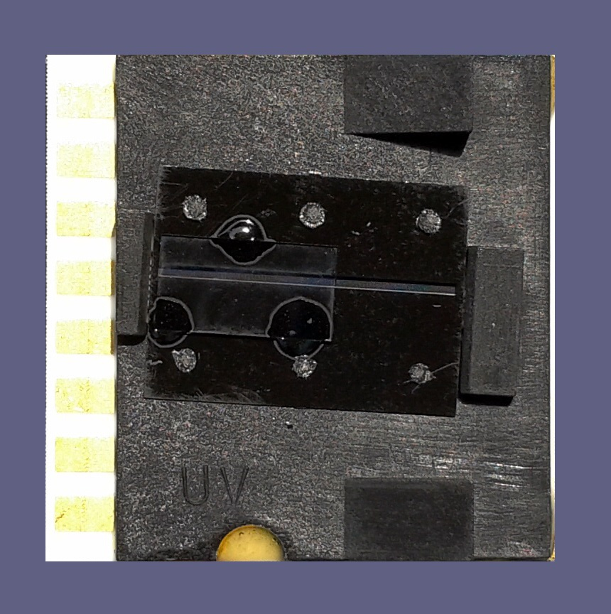 Chip of a photodiode array used as UV-visible spectrophotometer detector. It contains more than 200 single photodiodes.